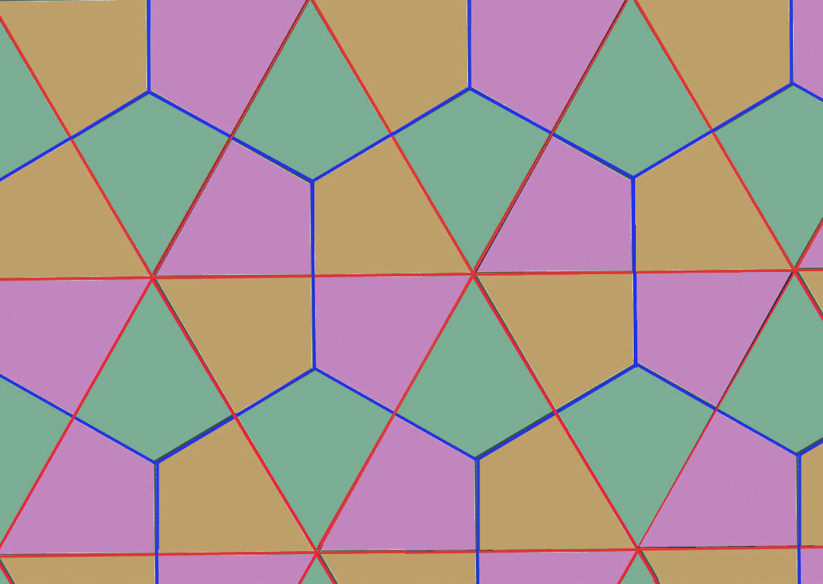 Deltoidal trihexagonal tiling by a deltoid (kite) tile, creating both a triangle tessellation and a hexegonal tessellation